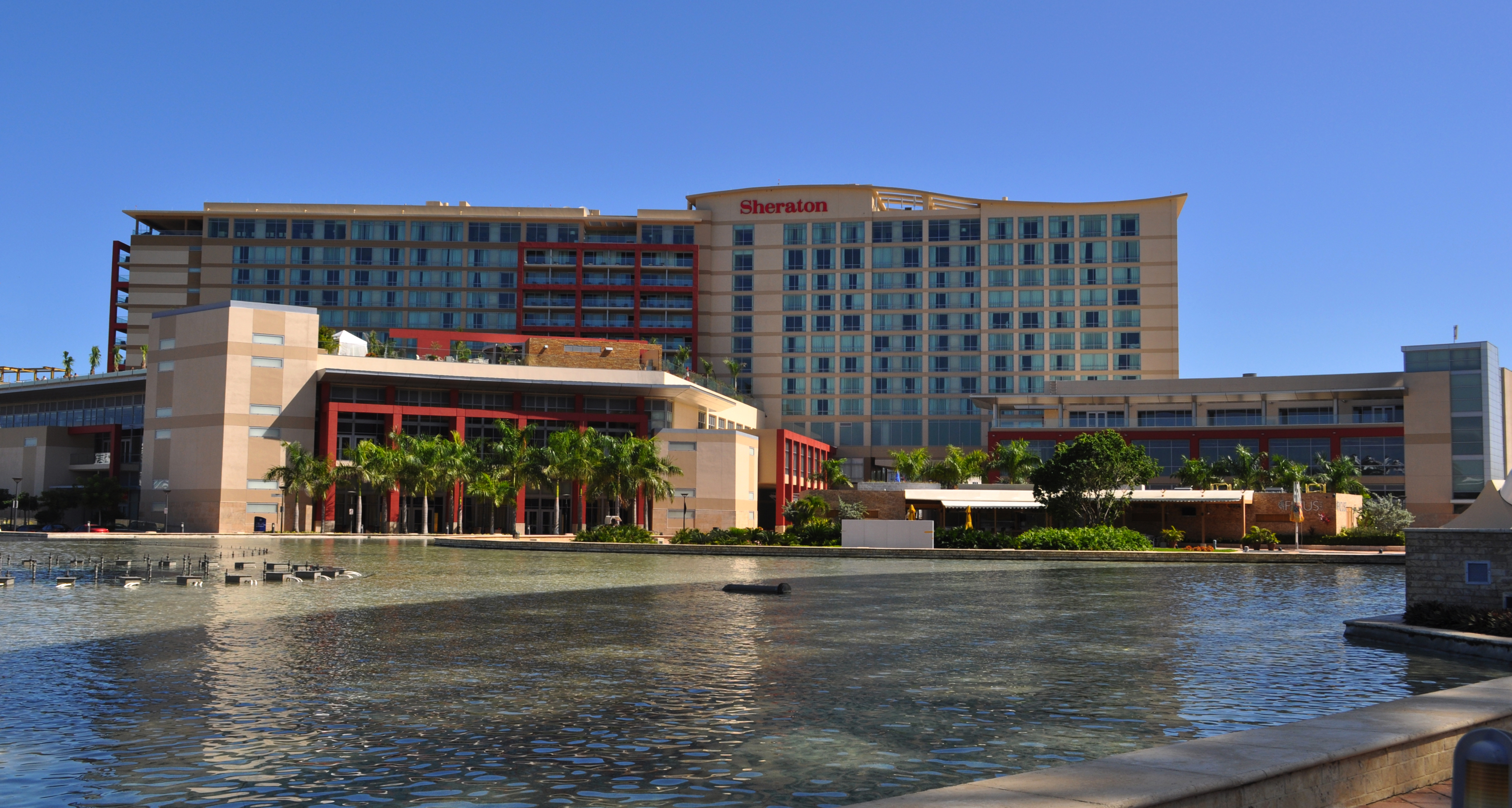 Puerto Rico Sheraton Hotel & Casino located in Isla Grande